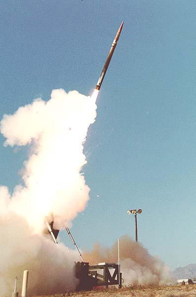 THAAD blasts into history as the newest defense against the TBM threat. The first THAAD battery activated in 1995 to test and evaluate the Army's newest system.